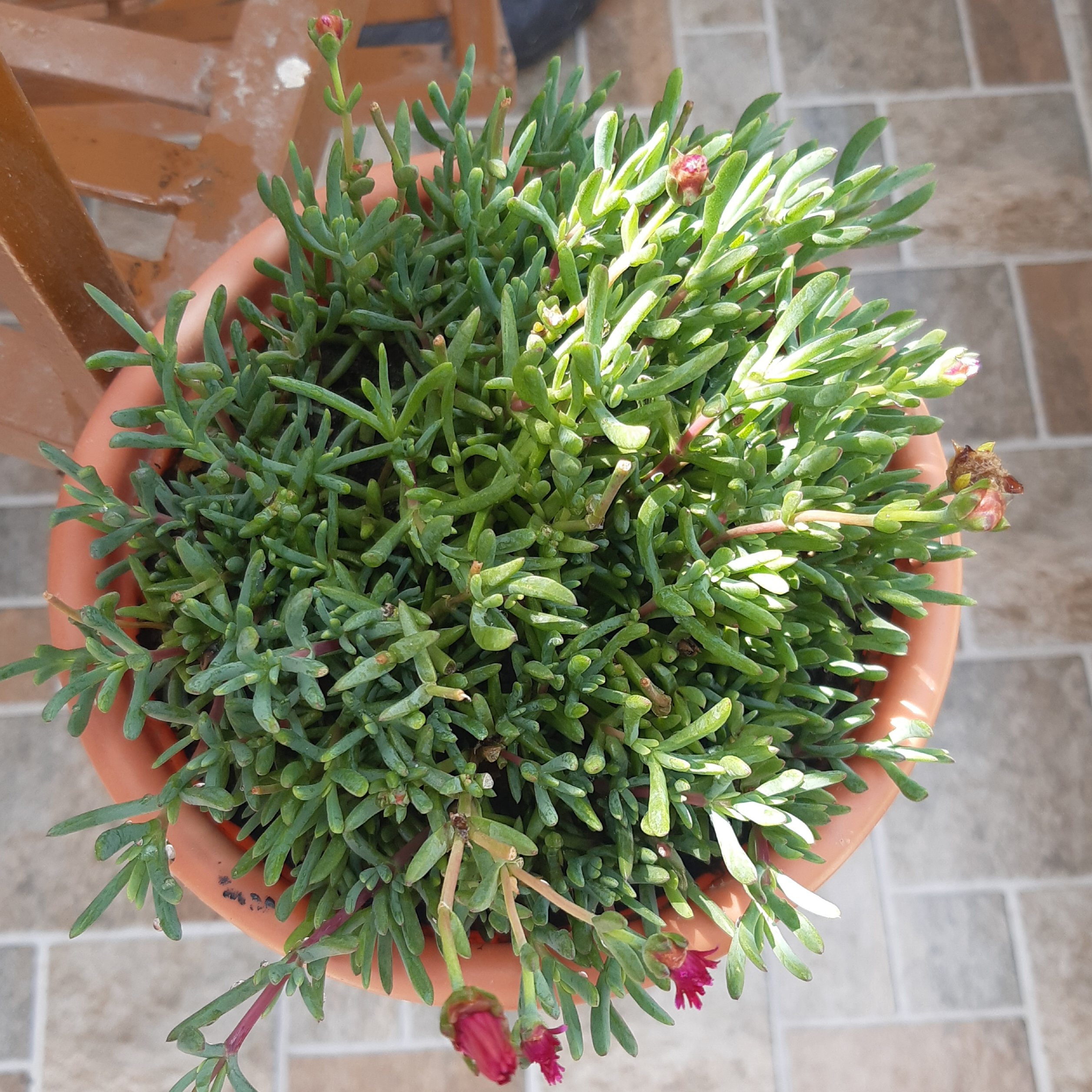 Ceratostylis rubra Plant